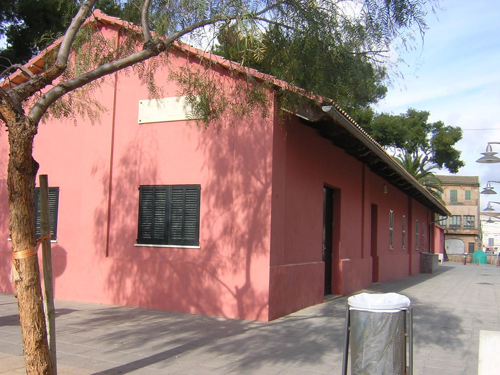 Old Sa Pobla station, Mallorca. Belonged to the railway between Palma, Inca and Sa Pobla, nowadays abandoned and a new platform is used.